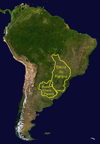 Geographic limits of Paraná Basin, South America